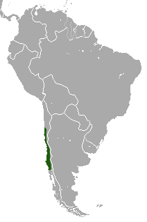 Elegant Fat-tailed Mouse Opossum (Thylamys elegans) range